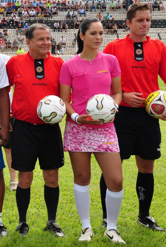 Referee Ana Paula Oliveira and unknown linesmen at the charity event "Futebol do Bem" in Votuporanga (SP), 2010-12-10